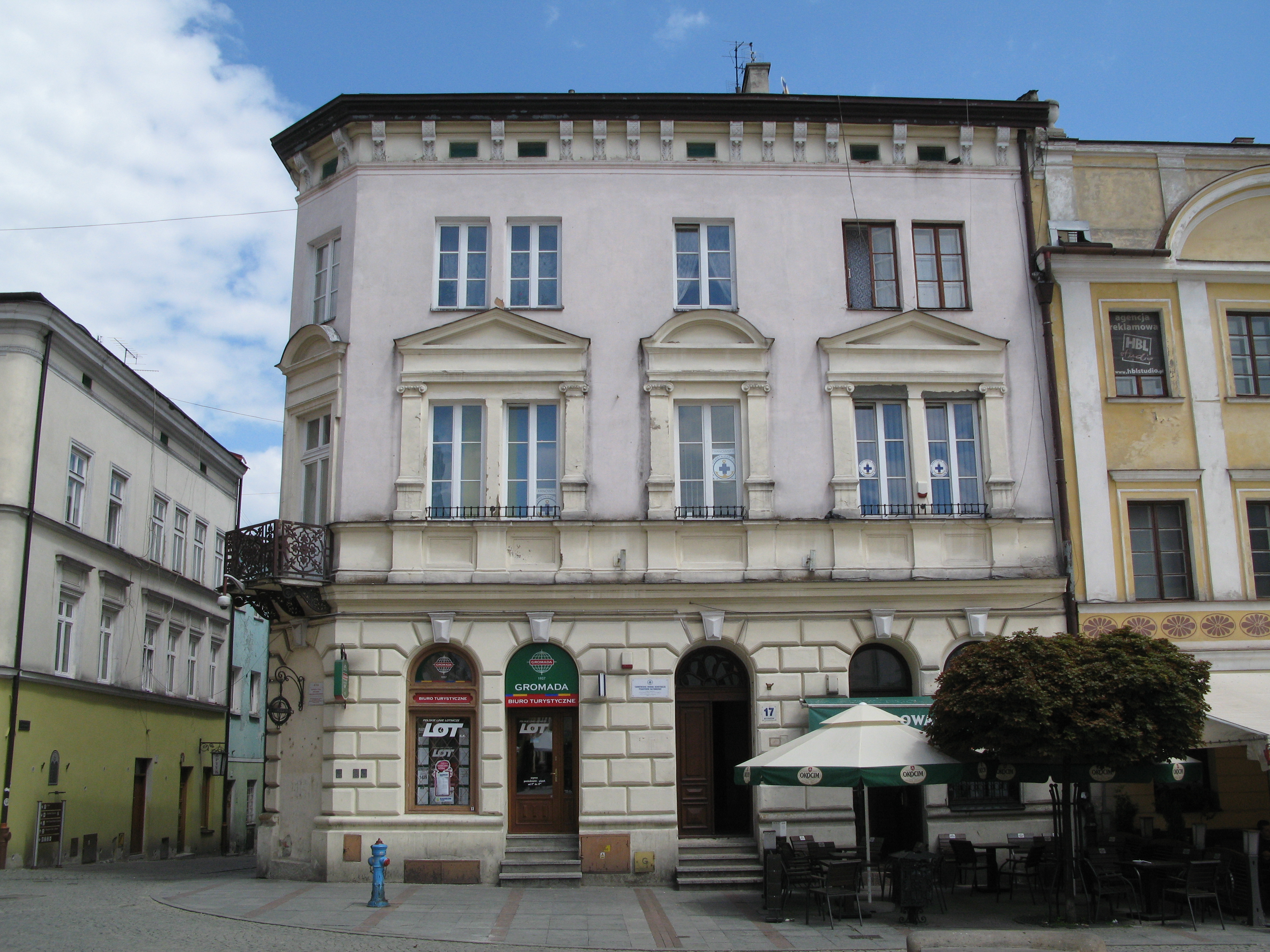 Building at Main Square in Tarnów